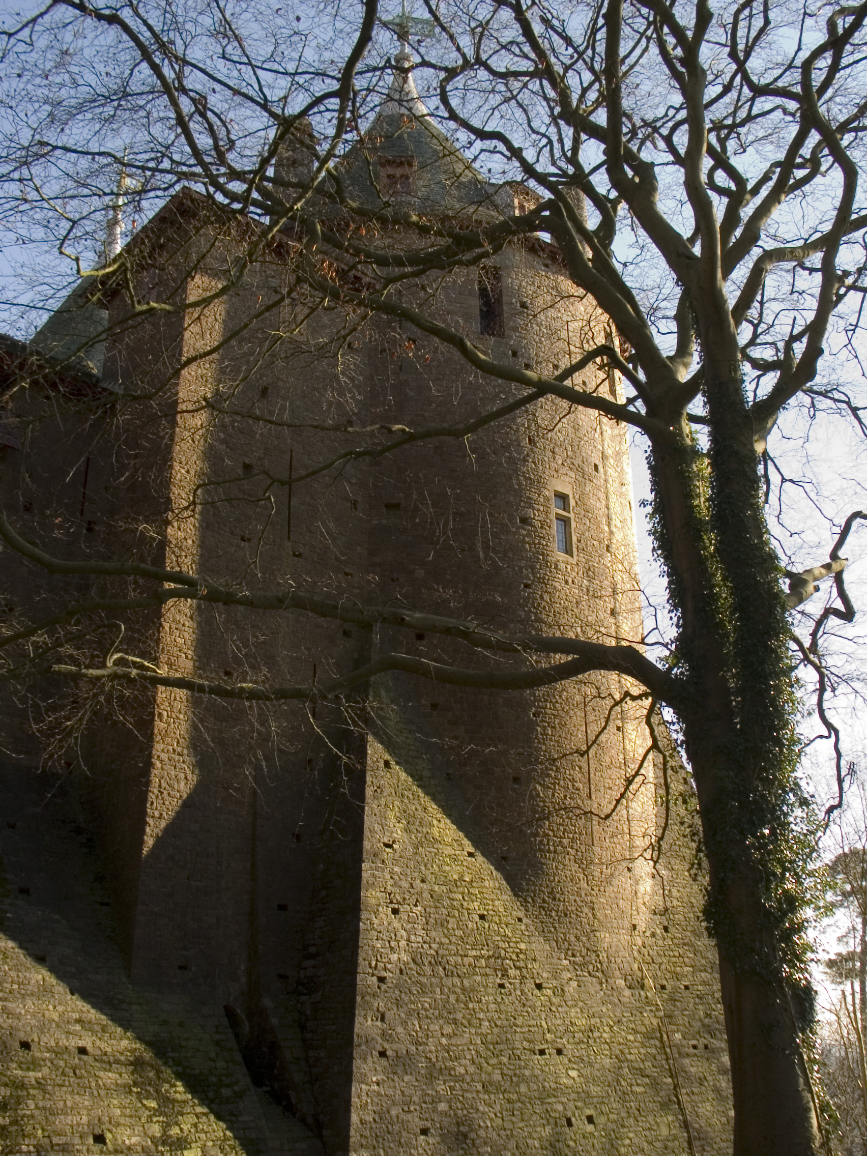 Castell Coch, rear side partial view, late January around midday.